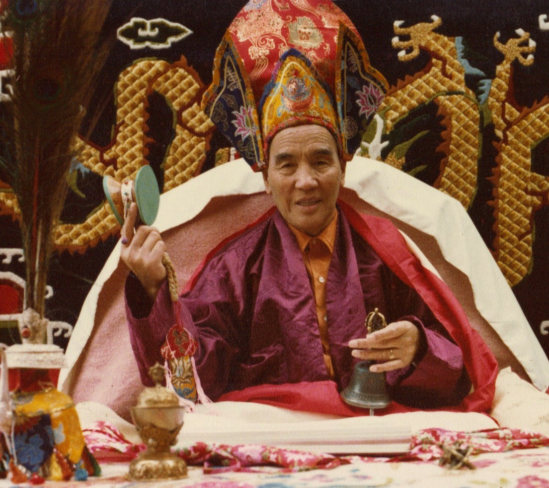 Lama Gonpo Tseten Rinpoche (1906-1991)